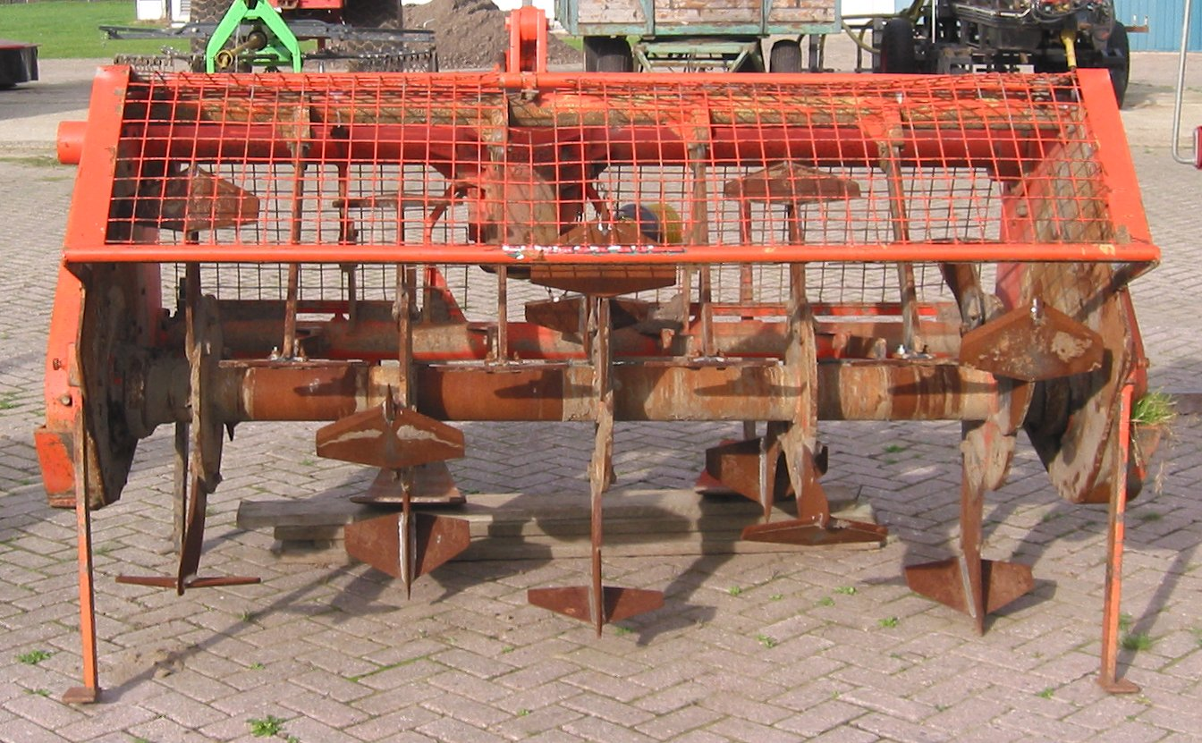 Spading machine, rear side view